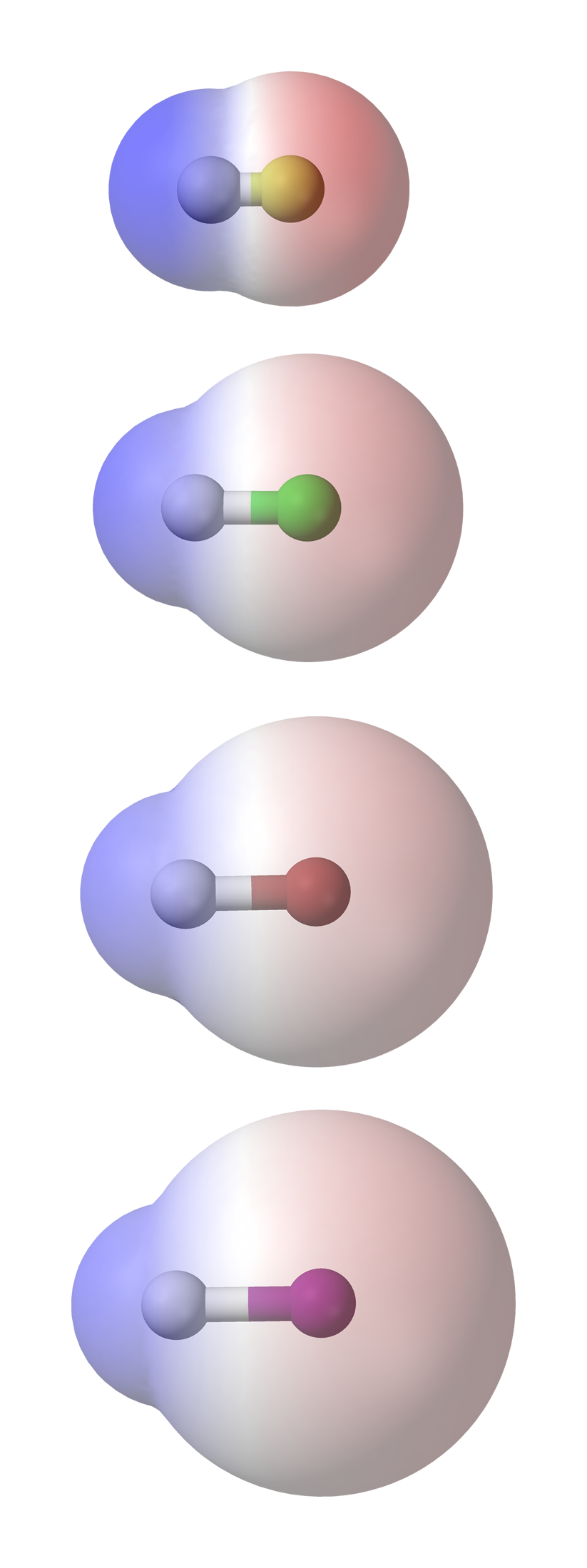 A montage of four van der Waals' surfaces coloured according to charge, superimposed on a ball-and-stick models of the hydrogen halide molecules, HX (from the top, HF, HCl, HBr and HI). Red represents partially negatively charged regions, blue represents partially positively charged regions, and white represents neutral (uncharged) regions. Created in Accelrys DS Visualizer 1.5, edited with Photoshop Elements 3.0.